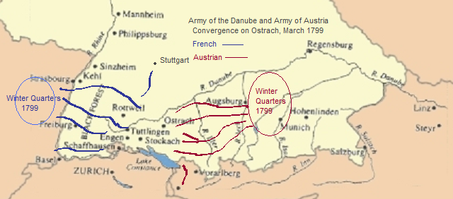 south western germany, convergence of Army of the Danube and Austrian Army on Ostrach